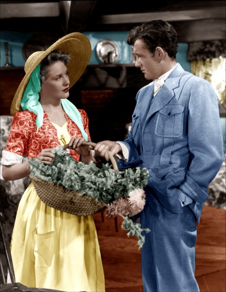 Dorothy Patrick & Robert Walker in Till the Clouds Roll By - cropped screenshot